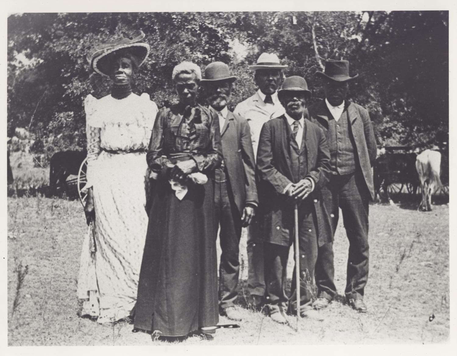 Juneteenth Emancipation Day Celebration, June 19, 1900, Texas.